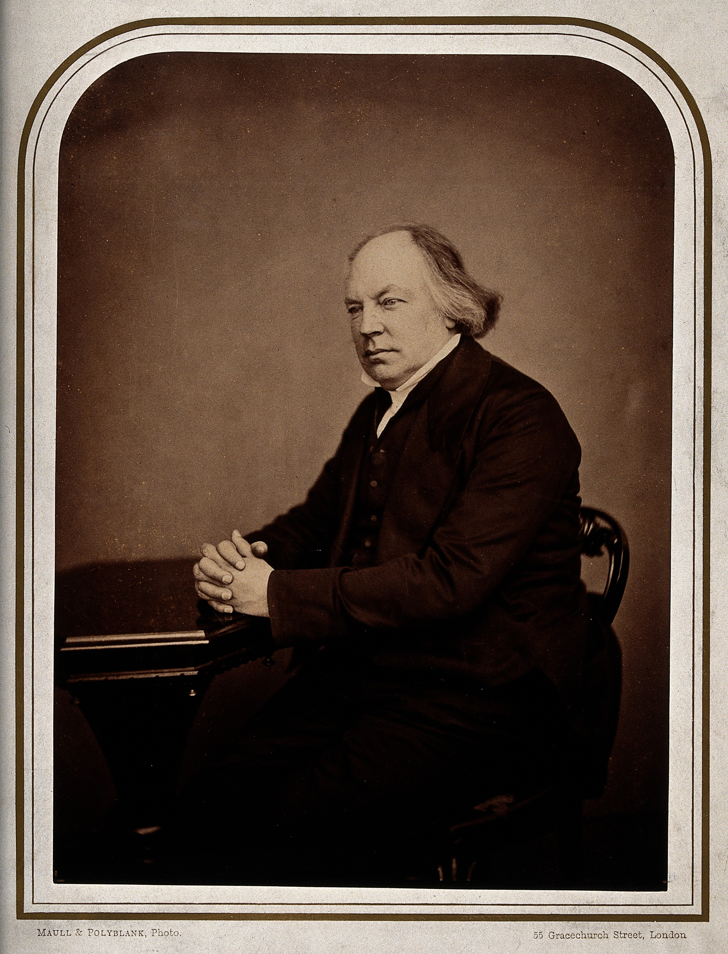 The Reverend Miles Joseph Berkeley. Photograph by Maull & Polyblank. Iconographic Collections Keywords: portrait photographs